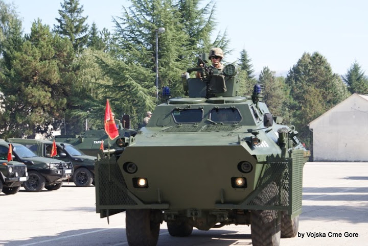 BOV M86 Montenegro